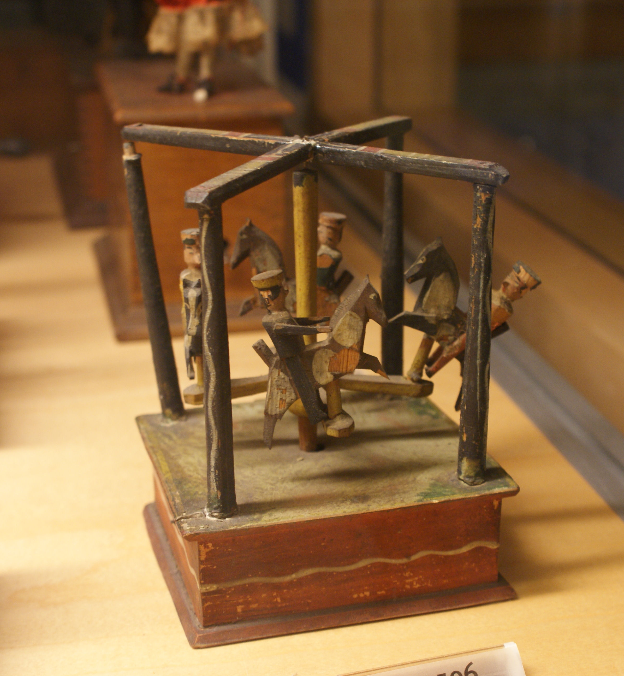 Mechanical toy carousel, mid-19th Century. Wood, metal, paint: 5 1/8 x 4 x 4 in. ( 13 x 10.2 x 10.2 cm ). New-York Historical Society, INV.4506. Wikipedia Loves Art at the New-York Historical Society This photo of item # [1] at the New-York Historical Society was contributed under the team name "Opal_Art_Seekers_4" as part of the Wikipedia Loves Art project in February 2009. New-York Historical Society The original photograph on Flickr was taken by griannan—please add a comment to the original Flickr page whenever a use has been made on Wikipedia or another project. Project galleries on Flickr: this institution, this team